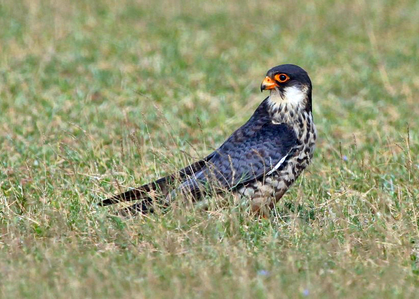 The Amur falcon (Falco amurensis) is a small raptor of the falcon family. It breeds in south-eastern Siberia and Northern China before migrating in large flocks across India and over the Arabian Sea to winter in Southern Africa. It was earlier treated as a subspecies of the red-footed falcon (Falco vespertinus) and known as the eastern red-footed falcon. Males are dark grey with reddish brown thighs and undertail coverts; reddish orange eye-ring, cere, and feet. Females are duller above, with dark scaly markings on white underparts, an orange eye ring, cere, and legs. Only a pale wash of rufous is visible on their thighs and undertail coverts. Their diet consists mainly of insects, such as termites; during migration over the sea, they are thought to feed on migrating dragonflies. The route that they take from Africa back to their breeding grounds is as yet unclear.